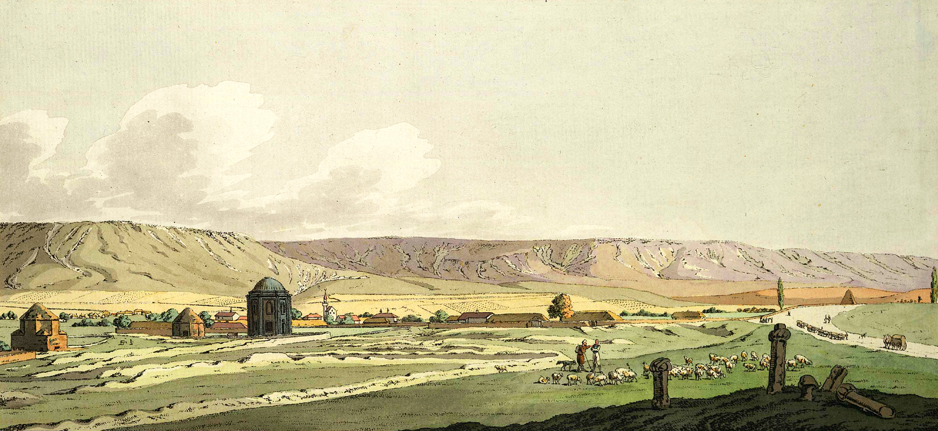 View of Eski-Yurt and ancient tombs near the village of the same name, below Bakhchisarai.